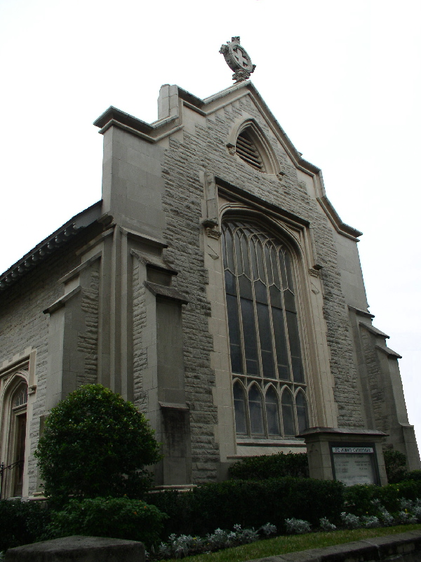 Picture taken in 2002